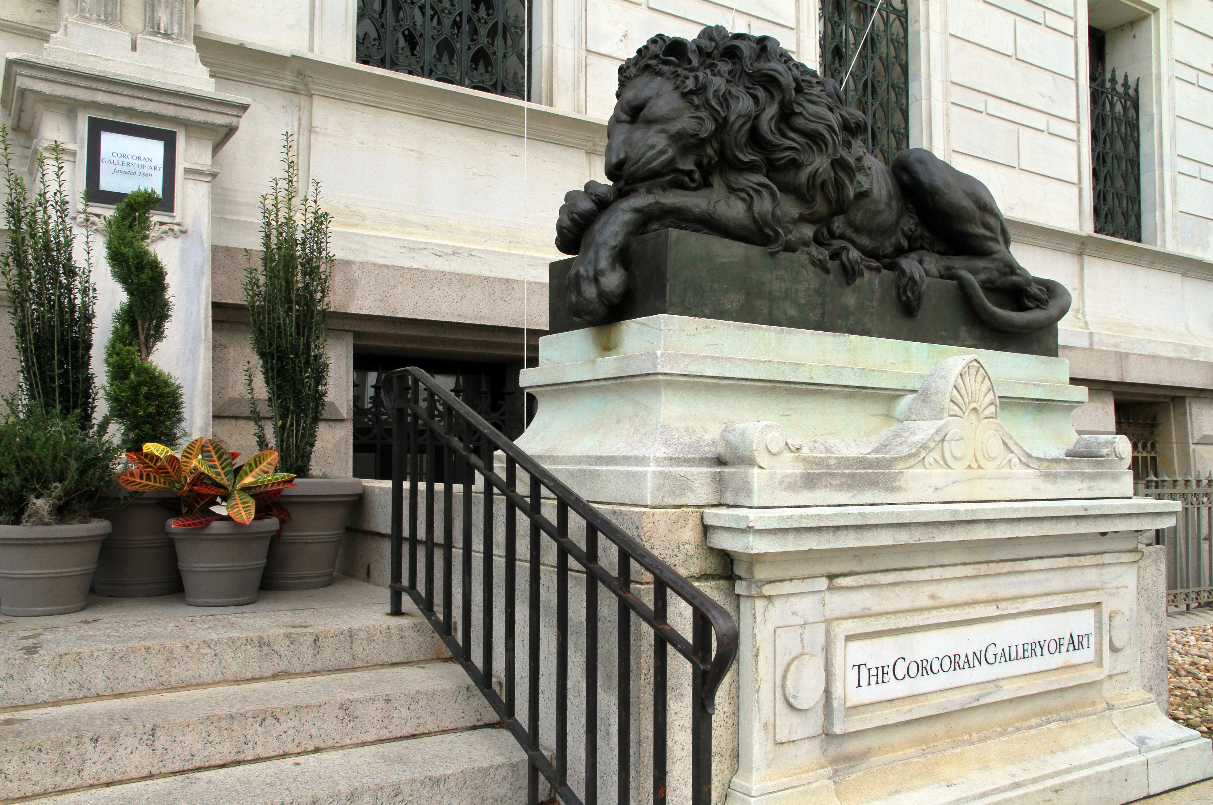 Corcoran Gallery of Art